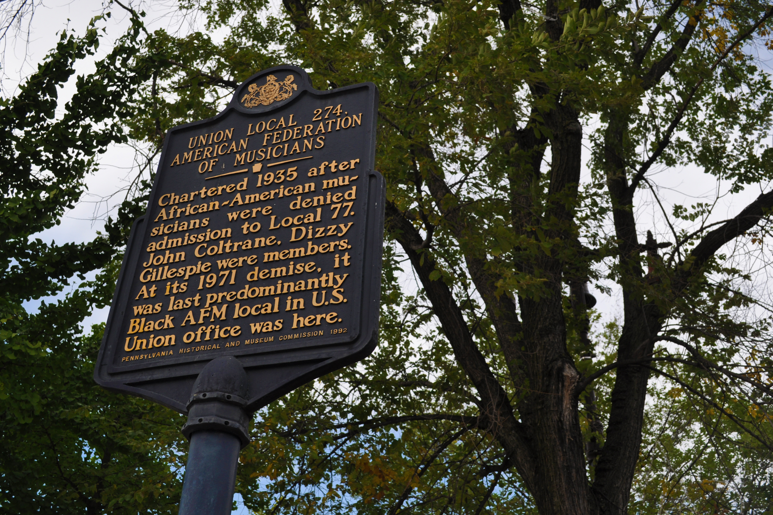 Union Local 274, American Federation of Musicians. Chartered 1935 after African-American musicians were denied admission to Local 77. John Coltrane, Dizzy Gillespie were members. At its 1971 demise, it was last predominantly Black AFM local in U.S. Union office was here. (Historical Marker at 912 S Broad St Philadelphia PA 19146 - PA Historical & Museum Commission 1992)